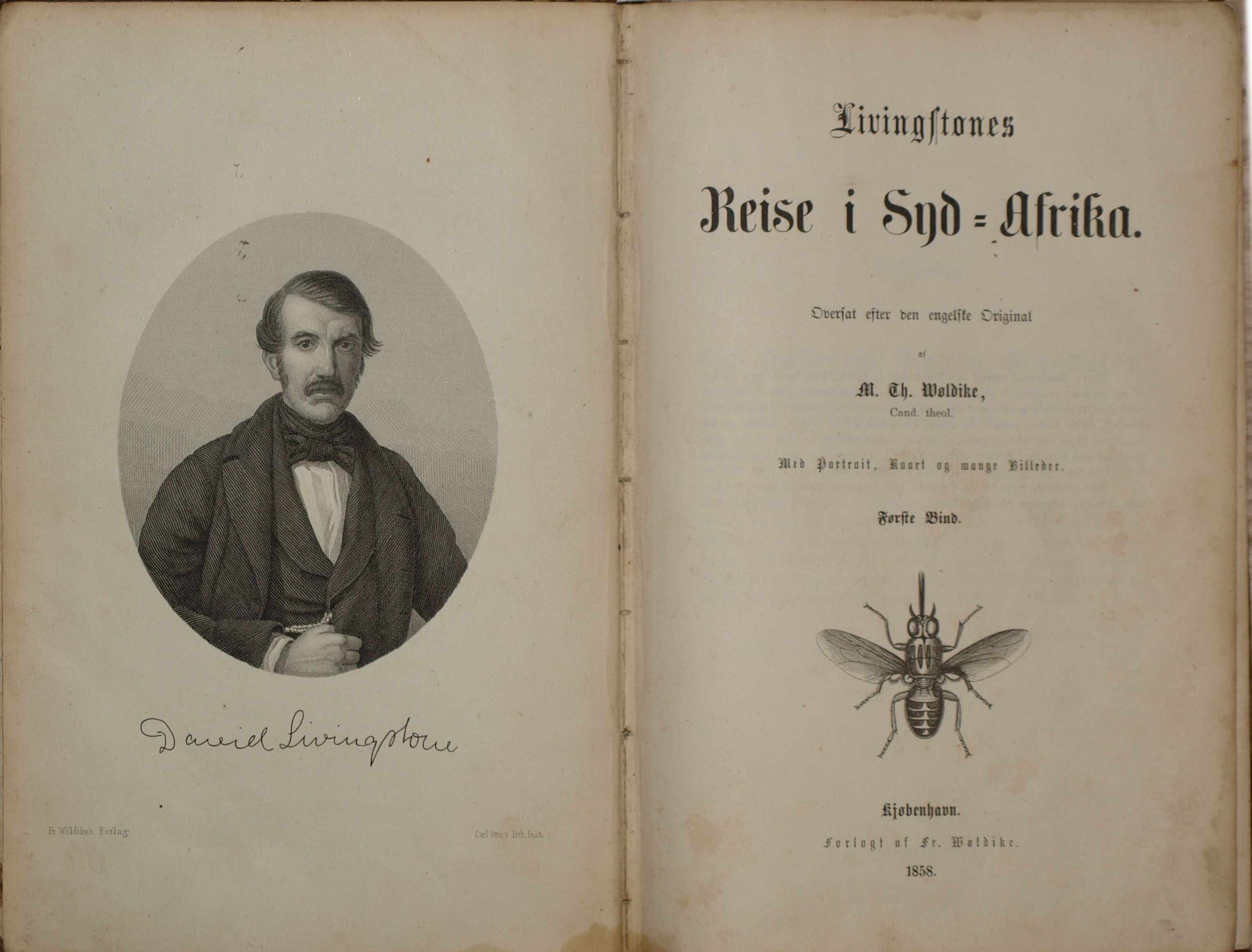 Danish: David Livingstones "Missionary Travels and Researches in South Africa" fra 1857 blev en international succes. Allerede året efter, i 1858, kom den første danske oversættelse "Livingstones Reise i Syd-Afrika".